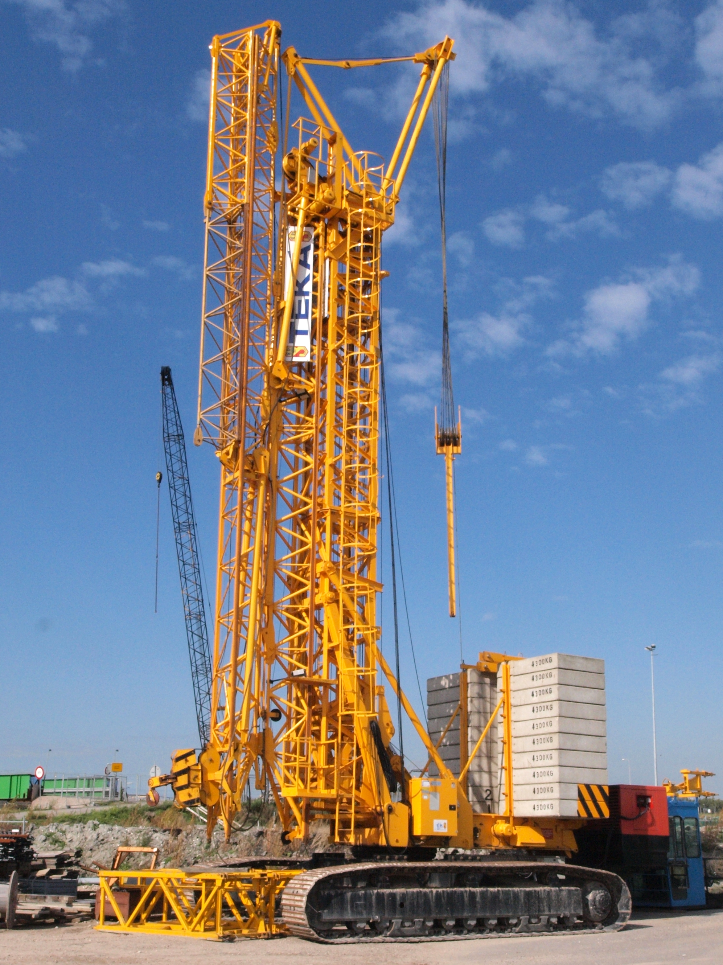 Probably a Potain GTMR series 300 or 400